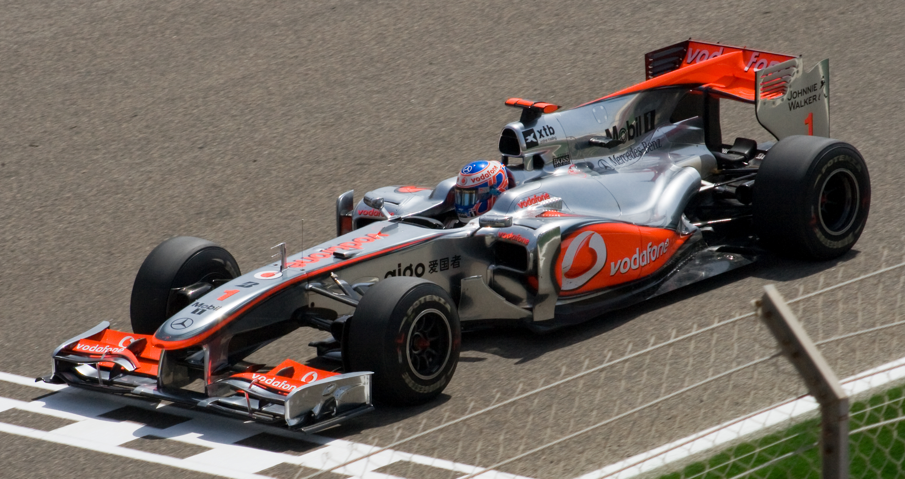 Jenson Button driving for McLaren during a practice session in Bahrain.